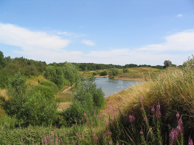 Stantons Pit Nature Reserve. Flooded former quarry managed by Lincolnshire Wildlife Trust